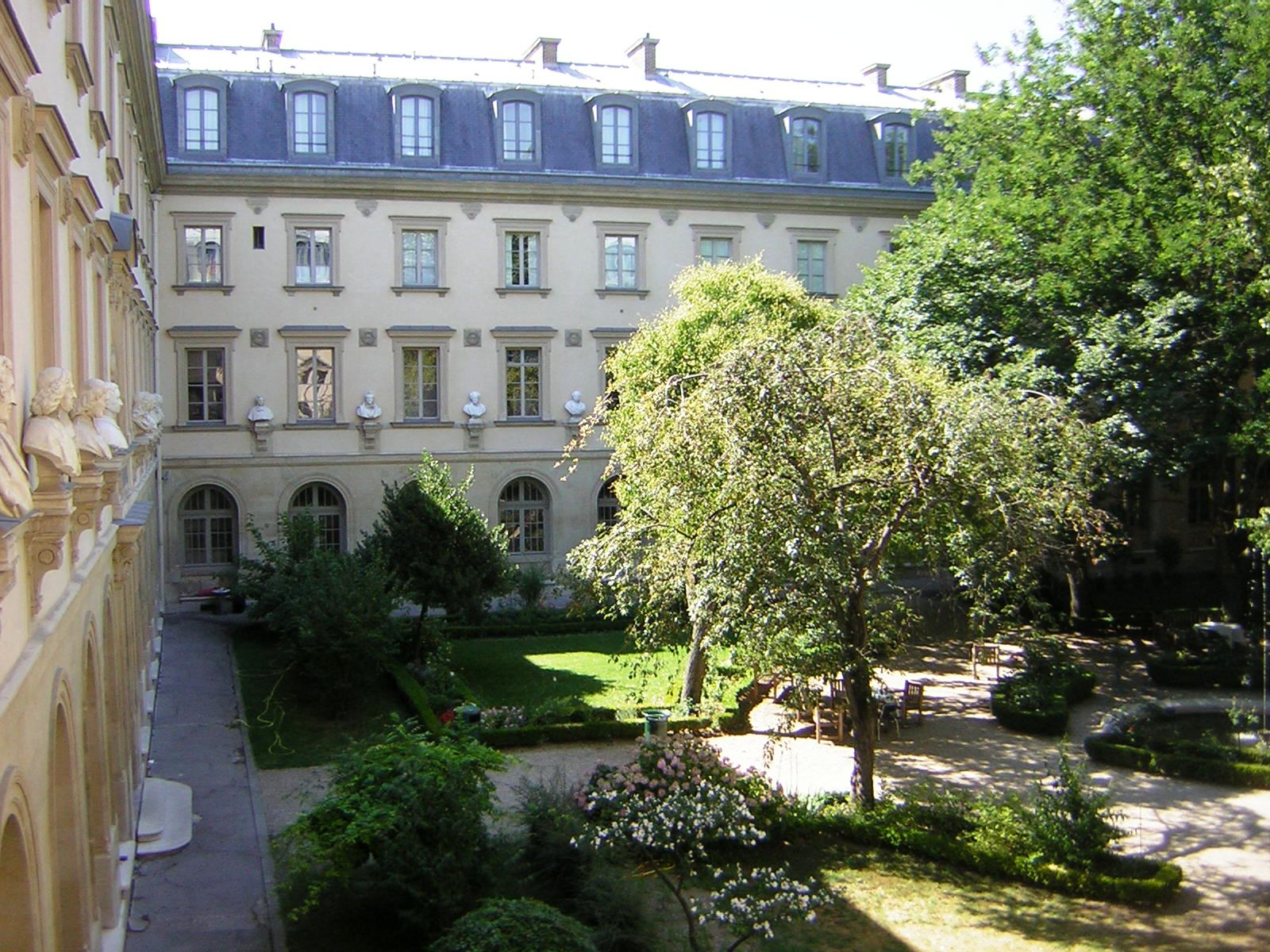 Paris (F), ENS Rue d´Ulm courtyard